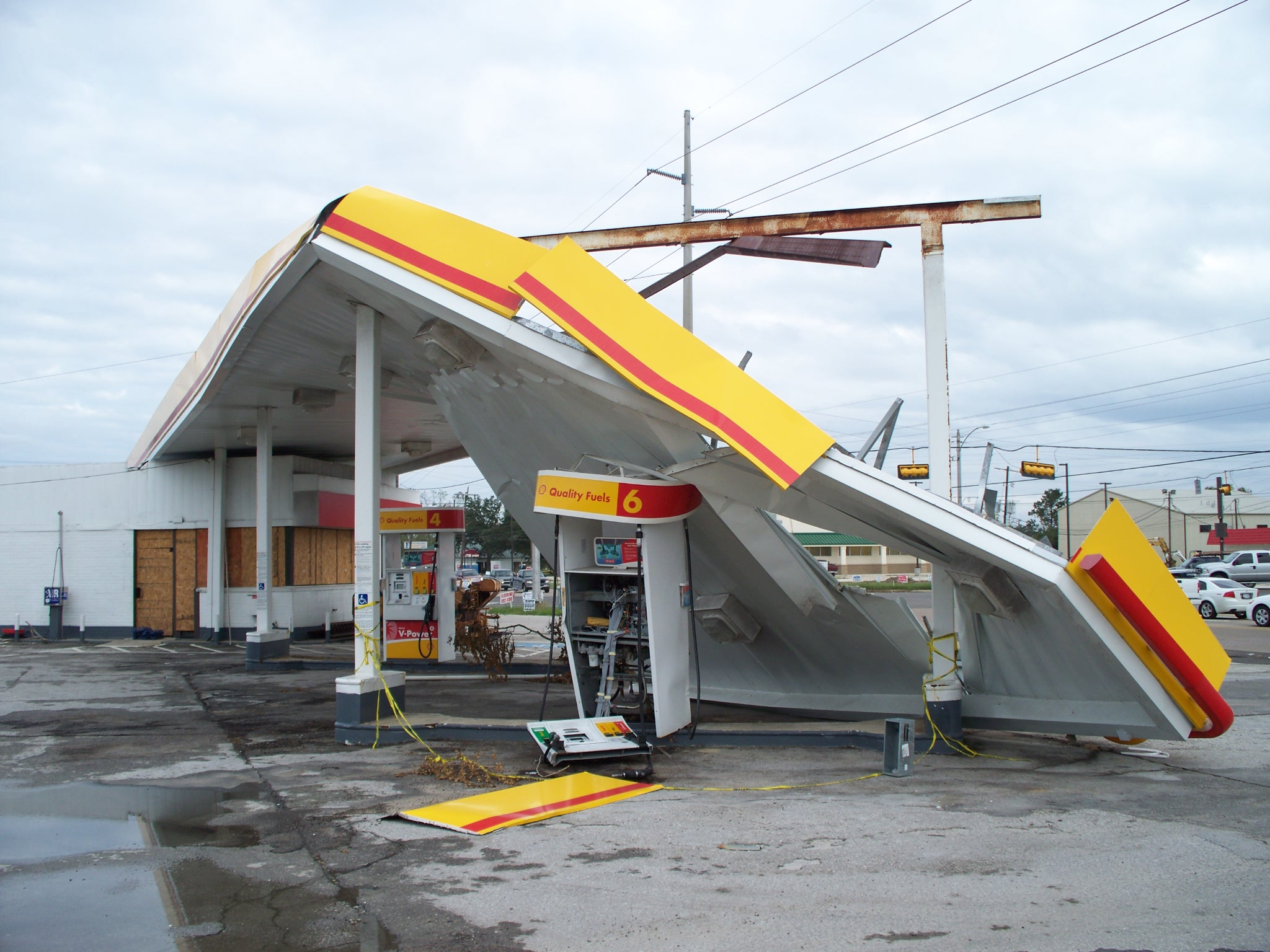 Hurricane Ike damage to a Shell gas station at Bridge City, Texas.